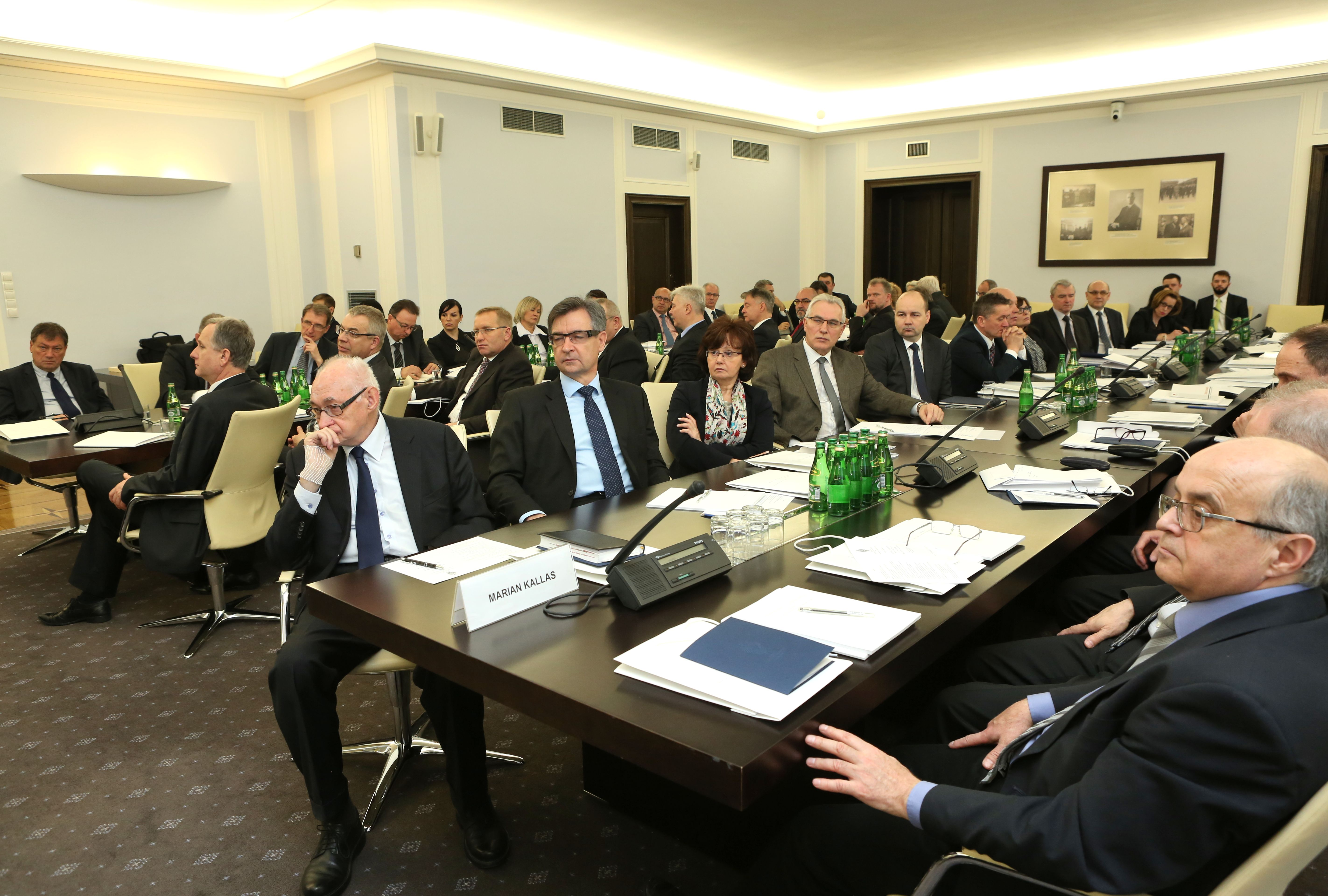 Conference "Model and role of public prosecutor's office in the system of state organs" in the Polish Senate